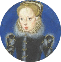 Portrait of Lady Catherine Grey (1540-1568)